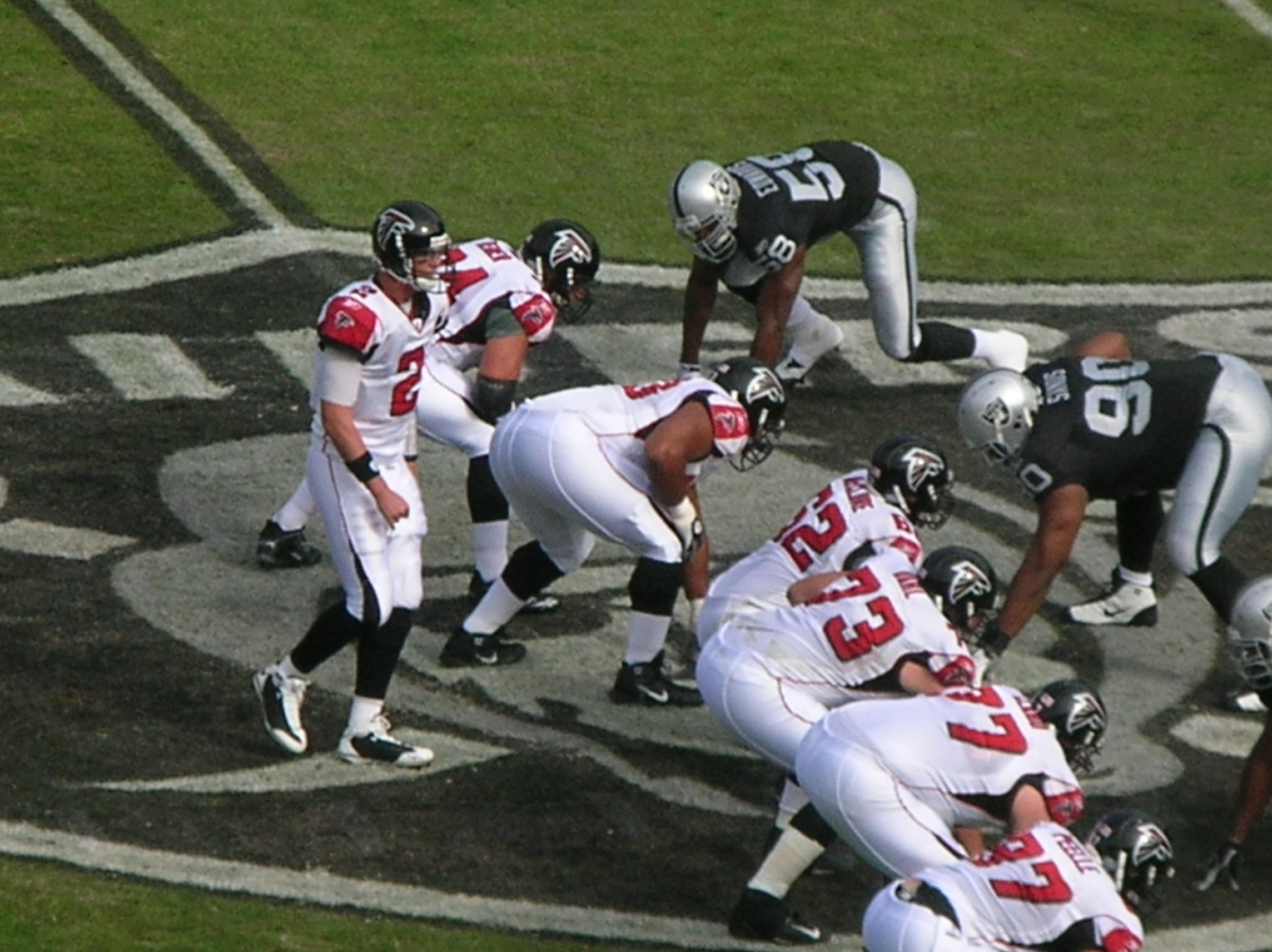 The Atlanta Falcons on offense at a road game against the Oakland Raiders. The Falcons won 24-0.